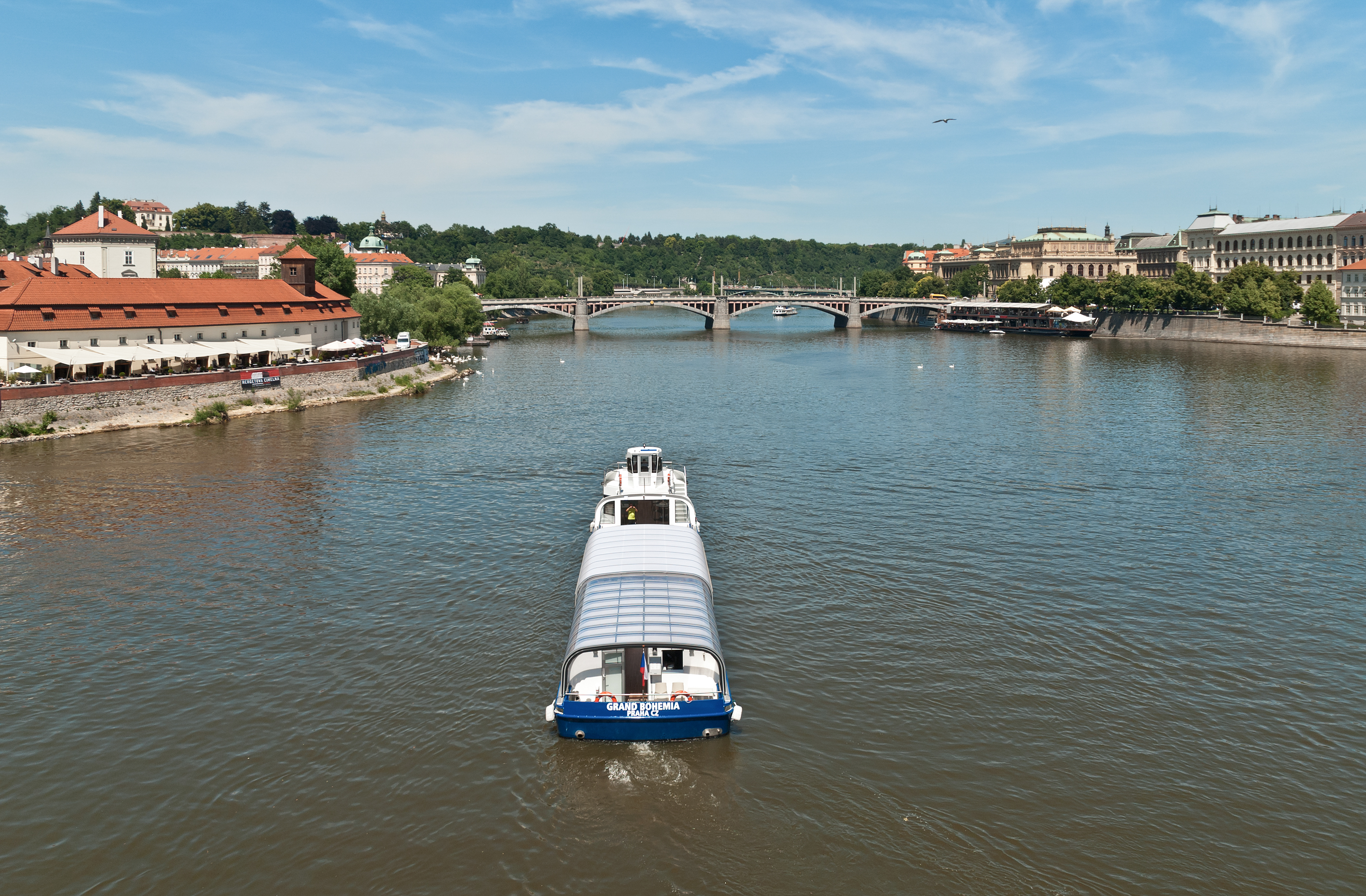 Views of Mánesův most in Prague from Charles Bridge